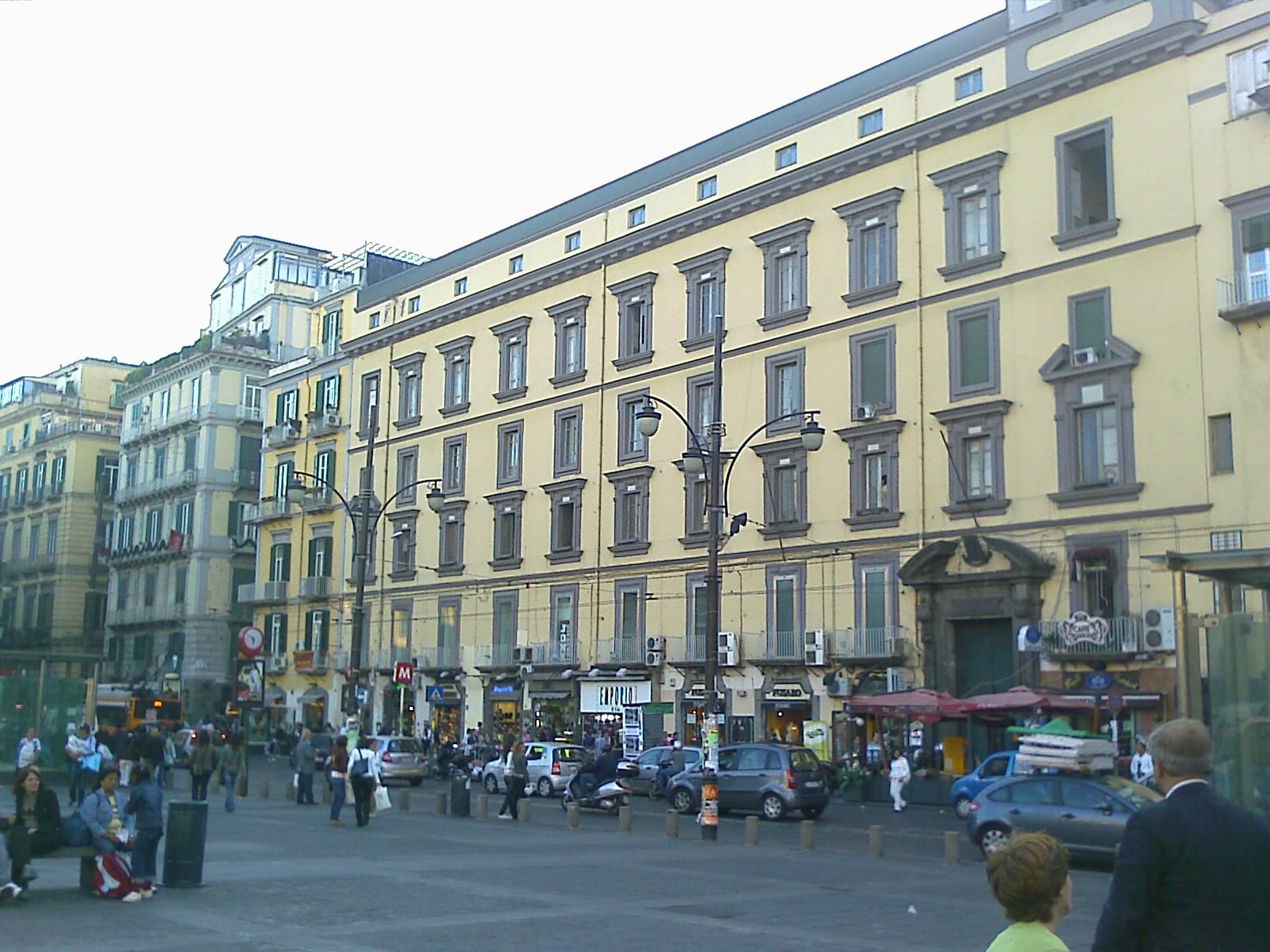 Facade of San Domenico Soriano cloister